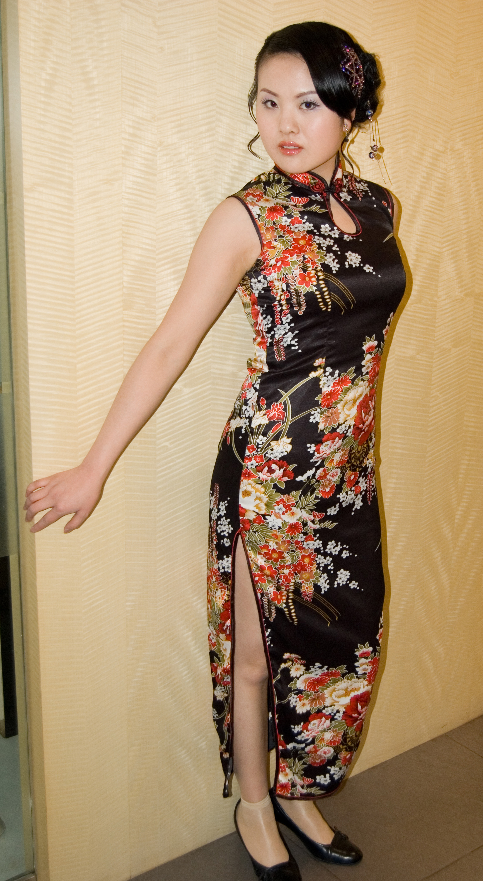 A Chinese woman wearing a cheongsam (not Hanfu)